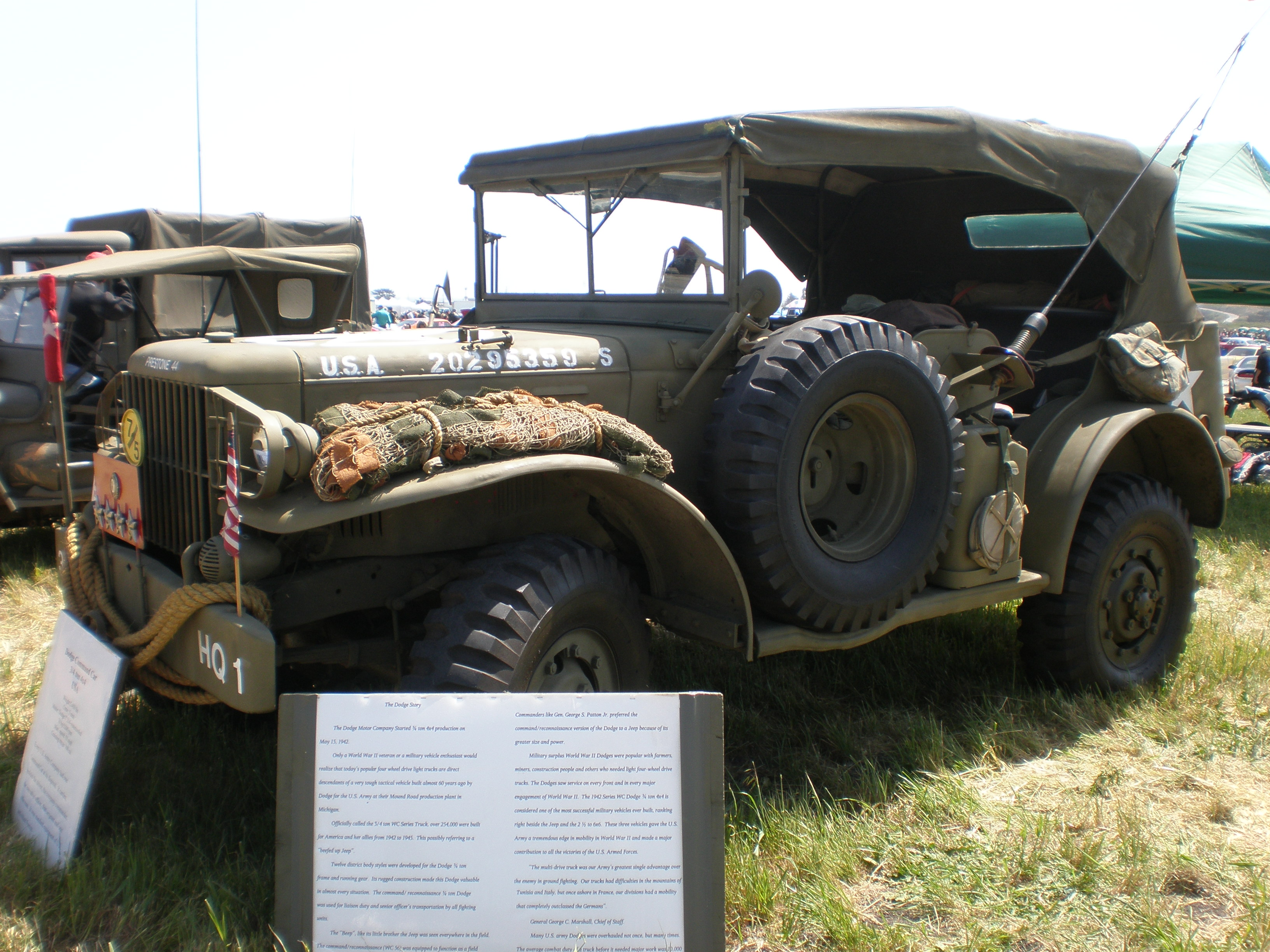 A Dodge WC series command car at the Pacific Coast Dream Machines 2009 vehicle show at the Half Moon Bay Airport in Half Moon Bay, California.